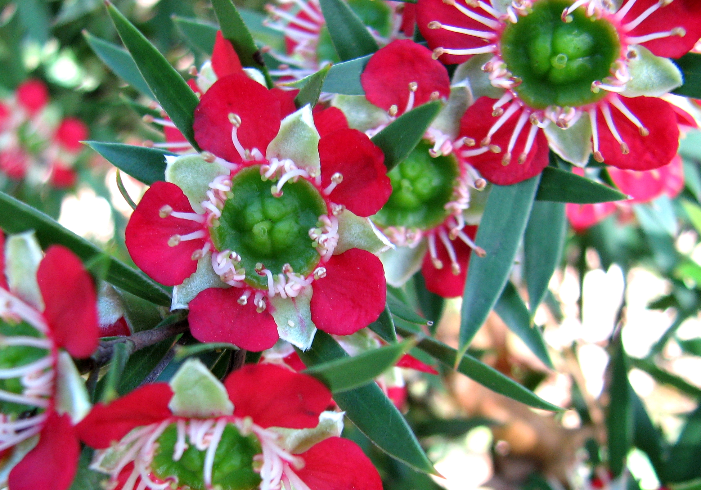 Leptospermum spectabile (cultivated, labelled) Royal Botanic Gardens Melbourne, Australia